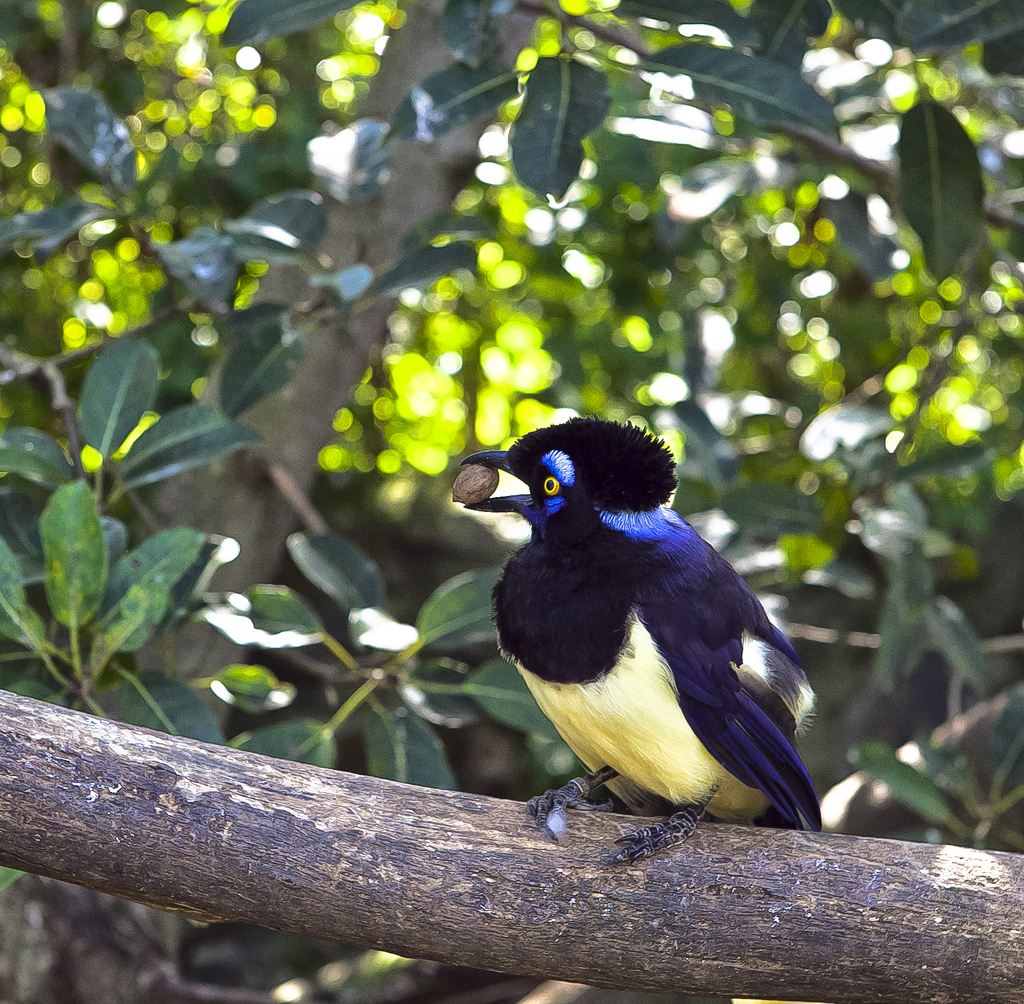 Plush Crested Jay